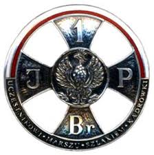 brak